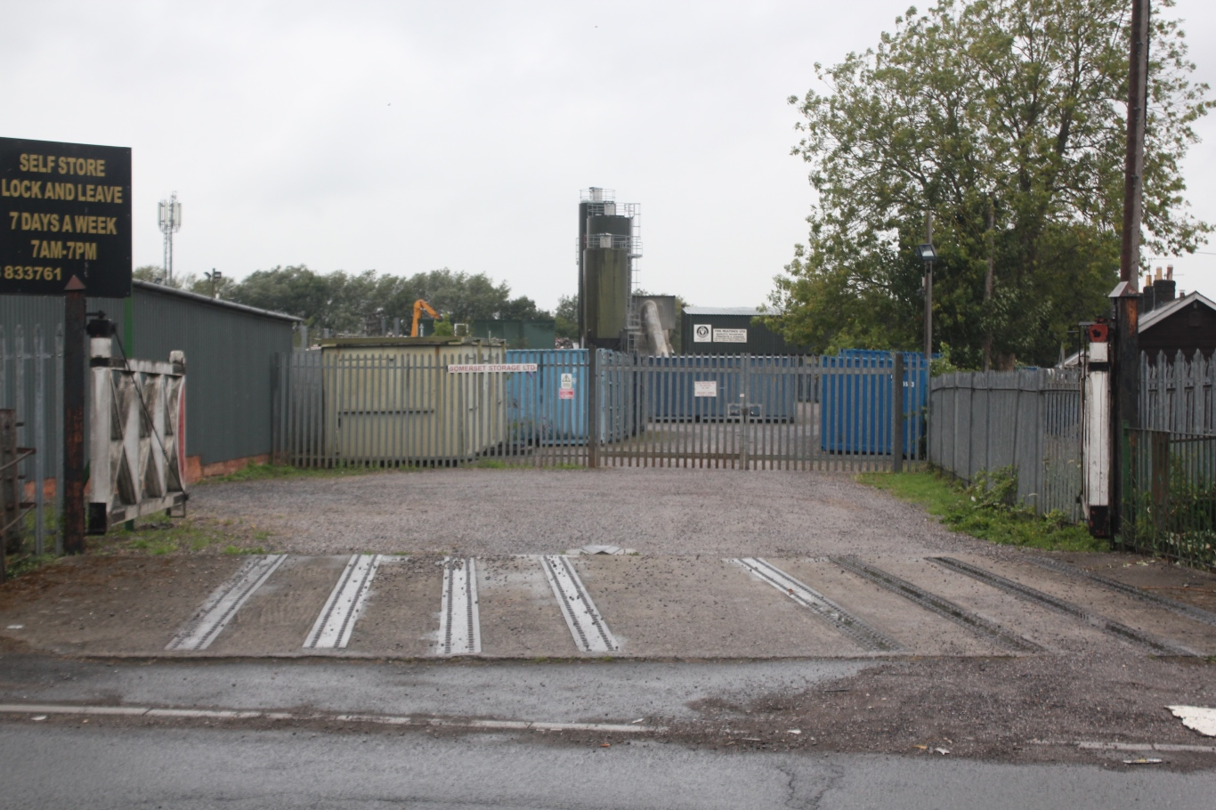 Looking along the track bed of the former Somerset central railway towards the site of Glastonbury and Street station.